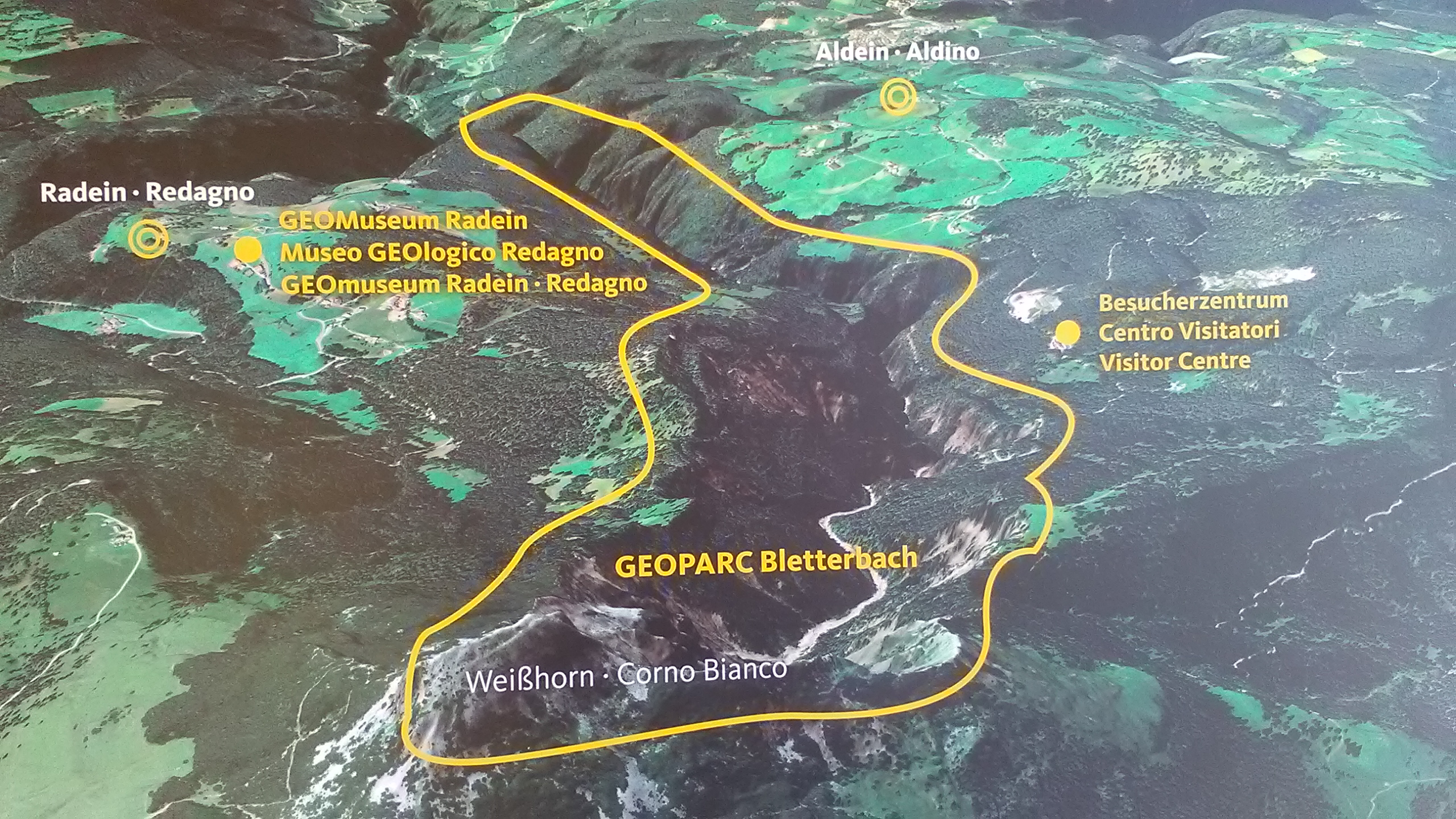 Geoparc Bletterbach view